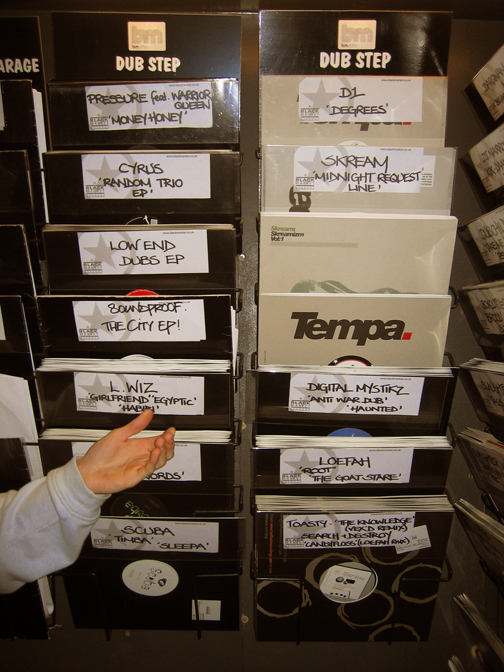 Dubstep 12" Rack at BM Soho, London